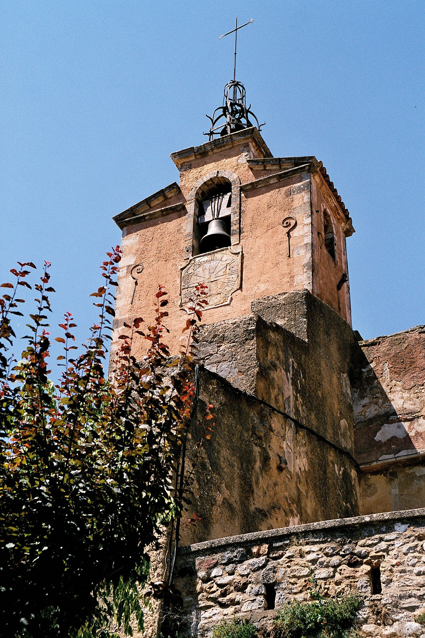 Bell tower in Roussillon (Vaucluse, France) - front view.